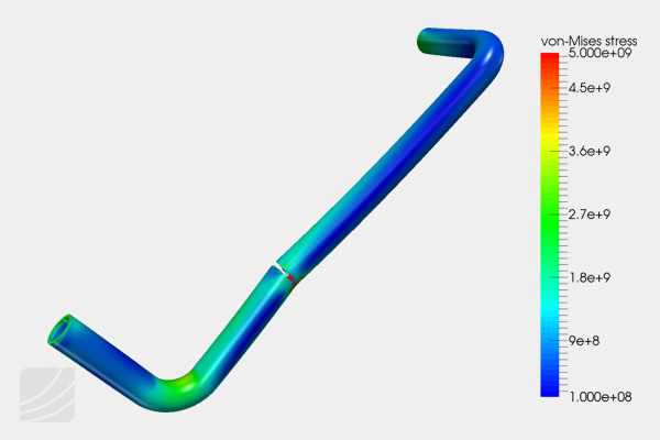 with the SimScale cloud-based CAE platform.